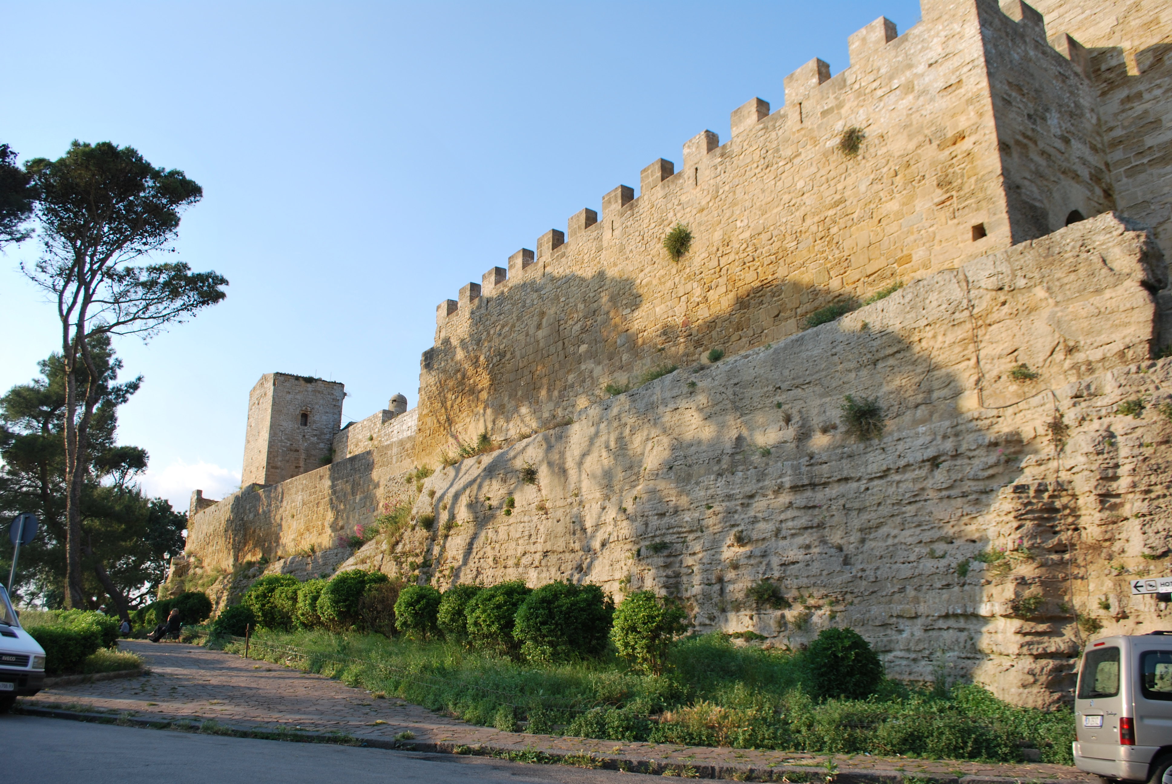 Castello of Lombardia in Enna